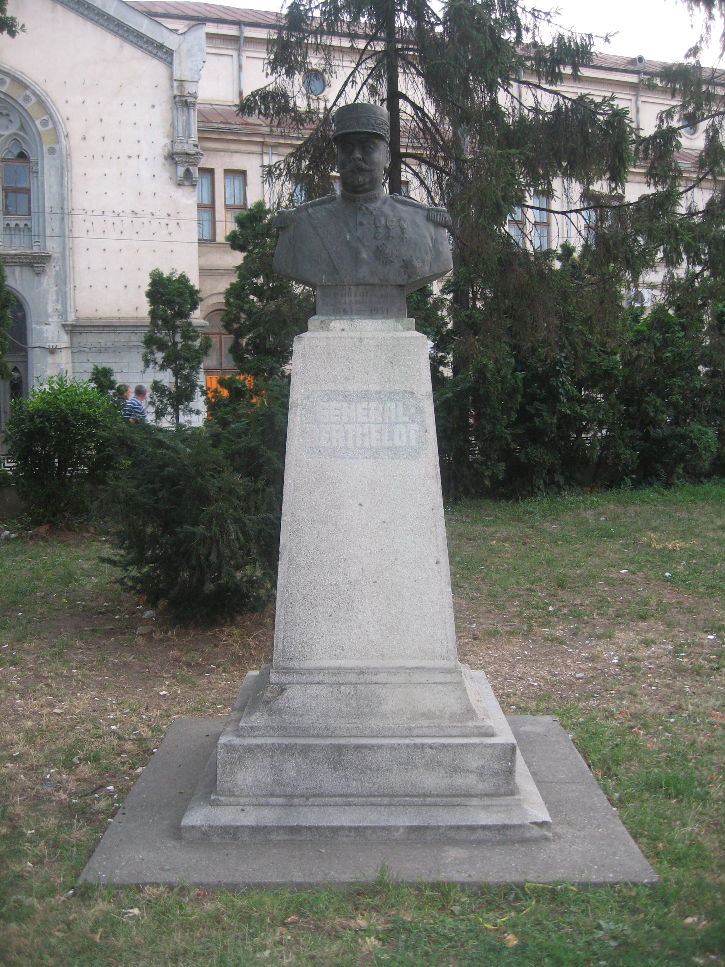 Bustul generalului Berthelot din Iaşi